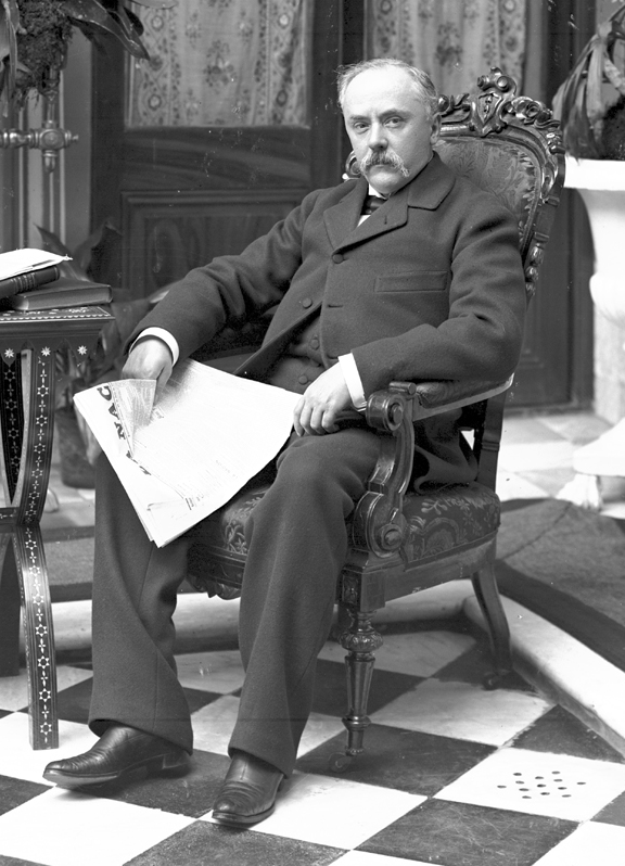 President of Uruguay, Juan Idiarte Borda, posing for the camera.